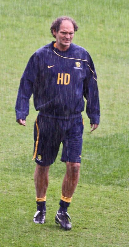 Henk Duut at a Socceroos training session at ANZ Stadium, the day before a World Cup Qualifying game against Uzbekistan.